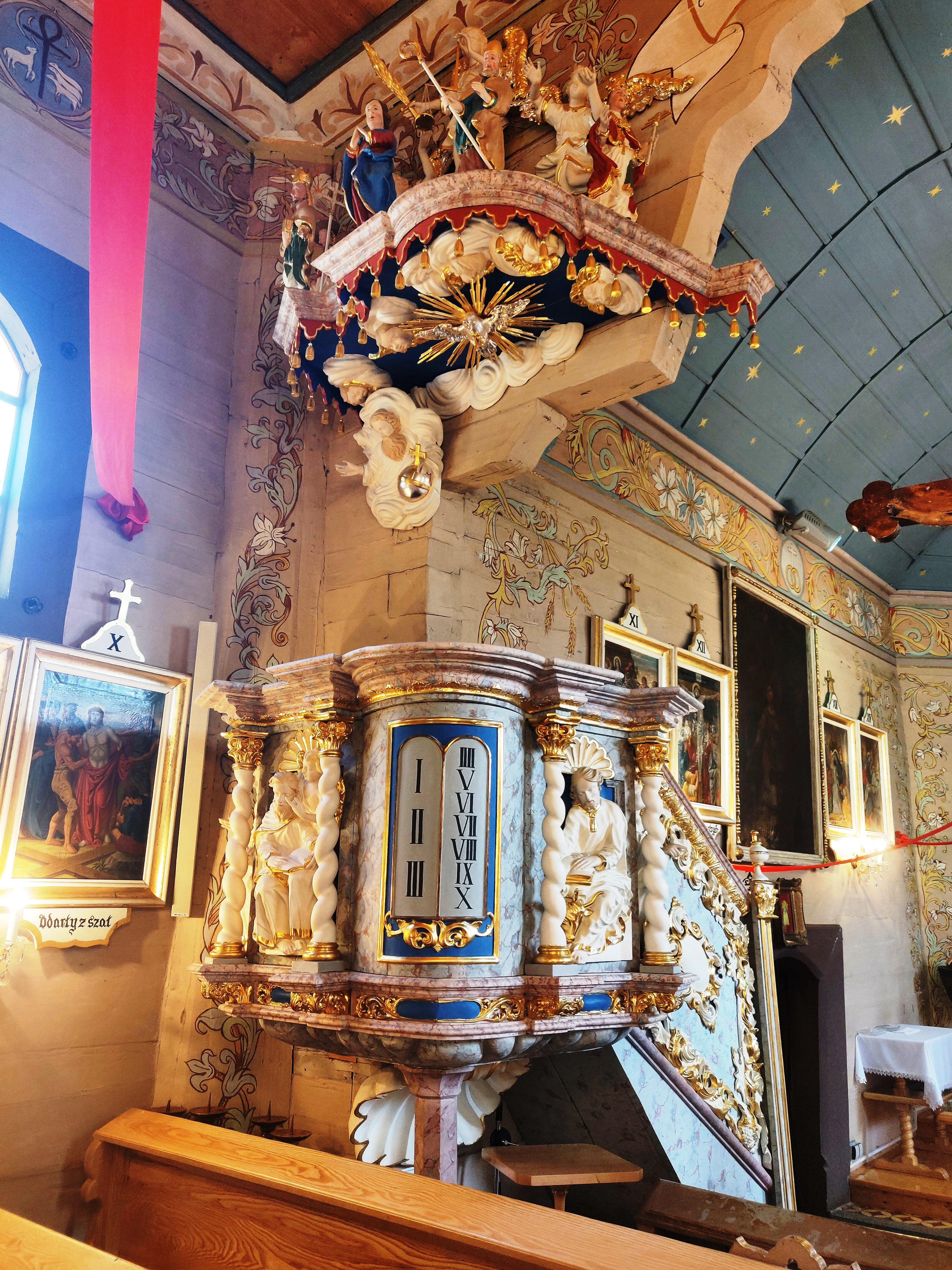 Saint Lawrence church in Bielowicko (inside)